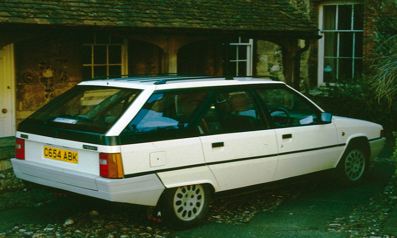 Citroen BX Break rear three quarters 13 November 1985 1905cc "untaxed" since 1999 or earlier